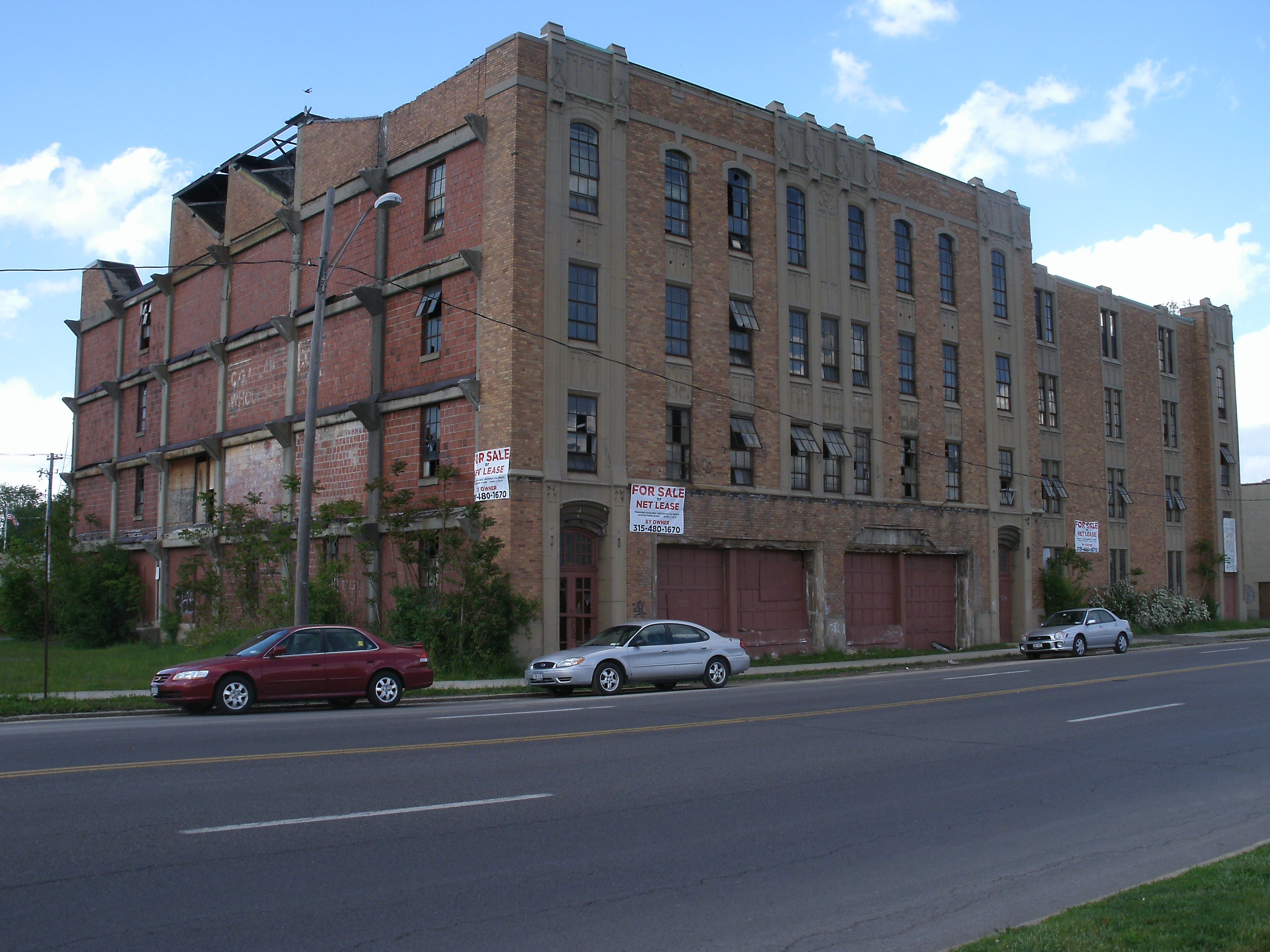 C.G. Meaker Food Company Warehouse building, at 538 Erie Blvd. West, in Syracuse, New York. South side, facing onto Erie Blvd, and west side of building. Recently listed on the U.S. National Register of Historic Places.